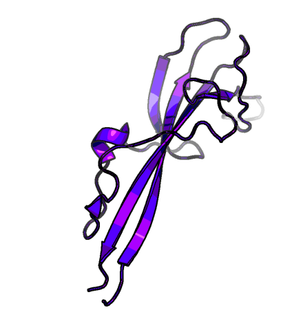 Crystal structure of the human dysferlin inner DysF domain, highlighting two main beta-strands in the structure.